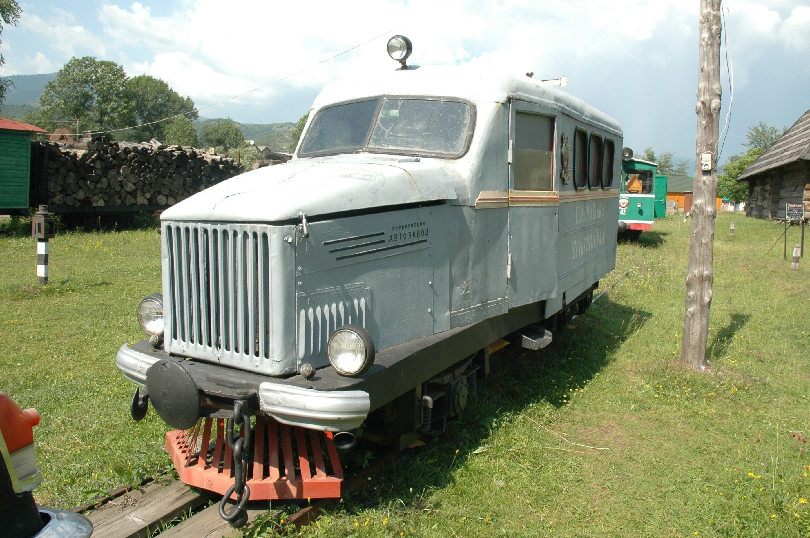 SMD-1 Soviet ambulance draisine of the former Kolochava Narrow Gauge Railway